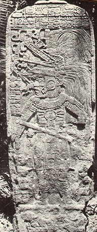 Sculpture at Maya site of Seibal, as photographed and published by Teoberto Maler, en:1908